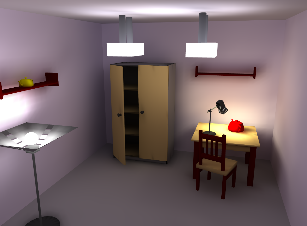 Screenshot of scene rendered with RRV (simple implementation of radiosity renderer based on OpenGL), step 79.